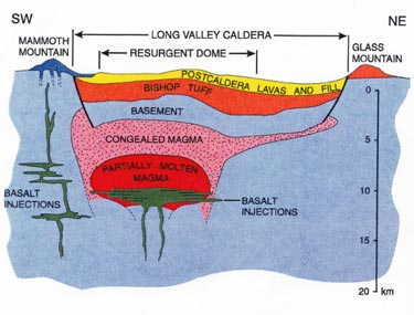 Schematic southwest-northeast geologic cross section of the Long Valley Caldera, Eastern California, showing likely locations of magmatic injection.